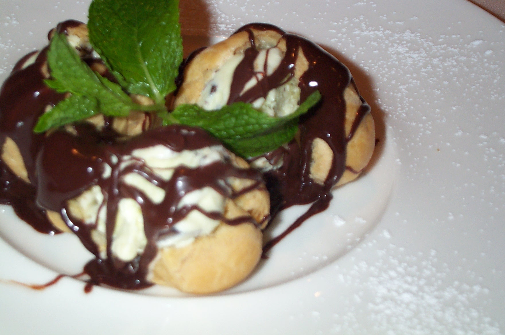 profiteroles